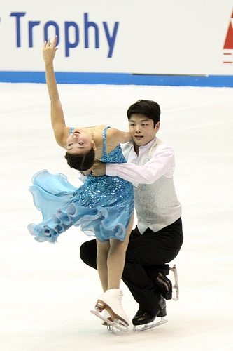 2010 NHK Trophy - Maia and Alex Shibutani